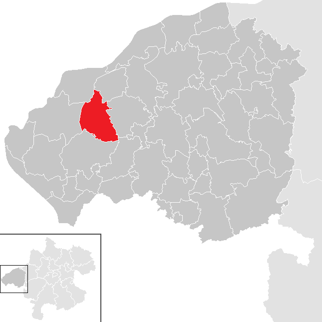 district Braunau am Inn